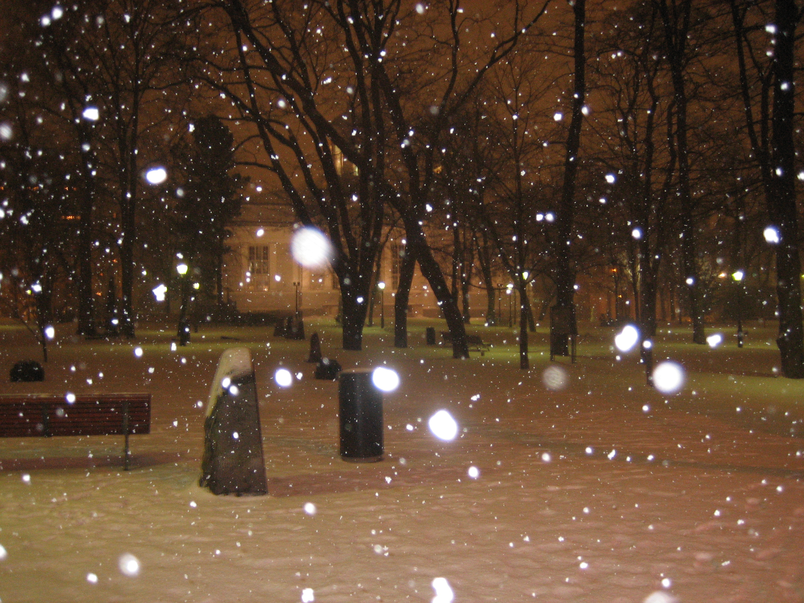 The Old Church Park in Helsinki, Finland